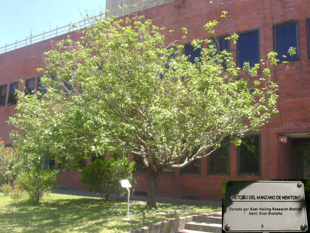 Reputed descendent of Newton's apple tree, at Instituto Sábato garden.